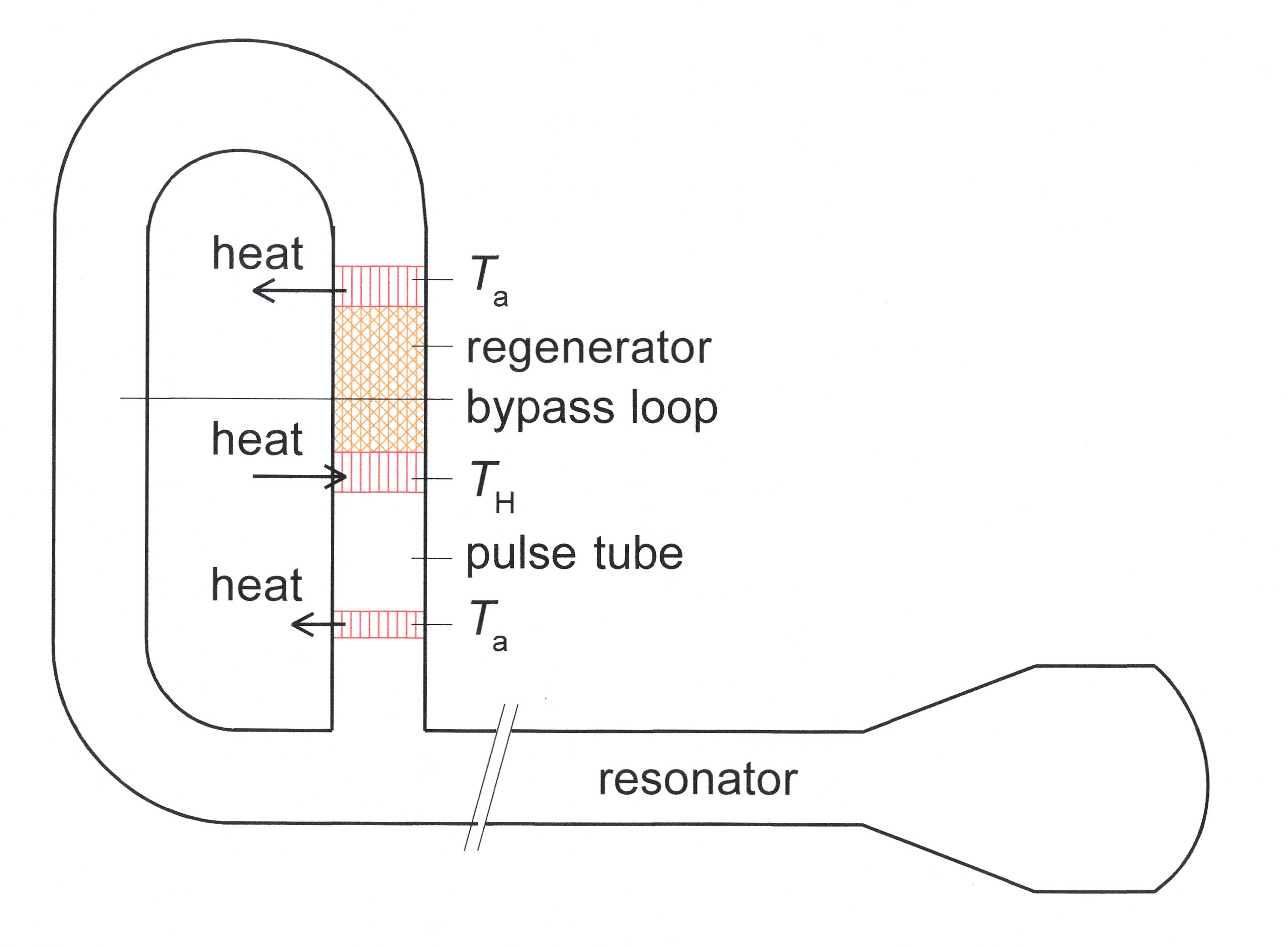 Schematic diagram of travelling wave system